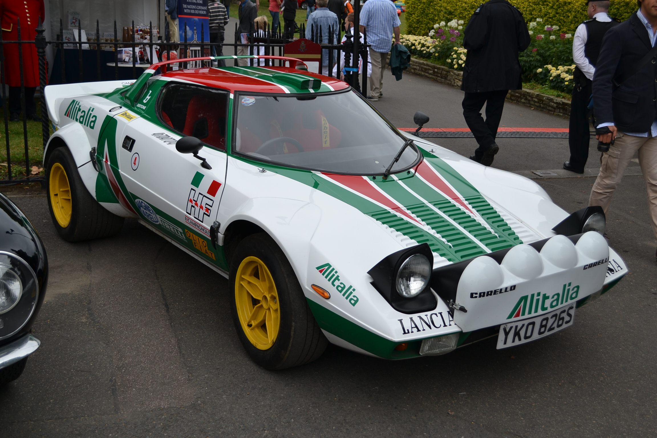 Chelsea Auto Legends 2012